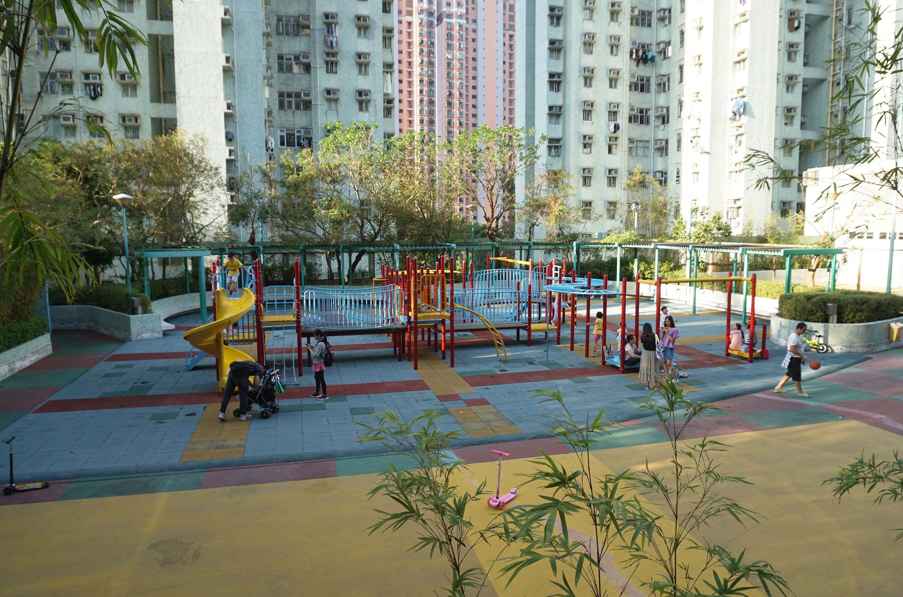 Saddle Ridge Garden in Ma On Shan, Hong Kong.